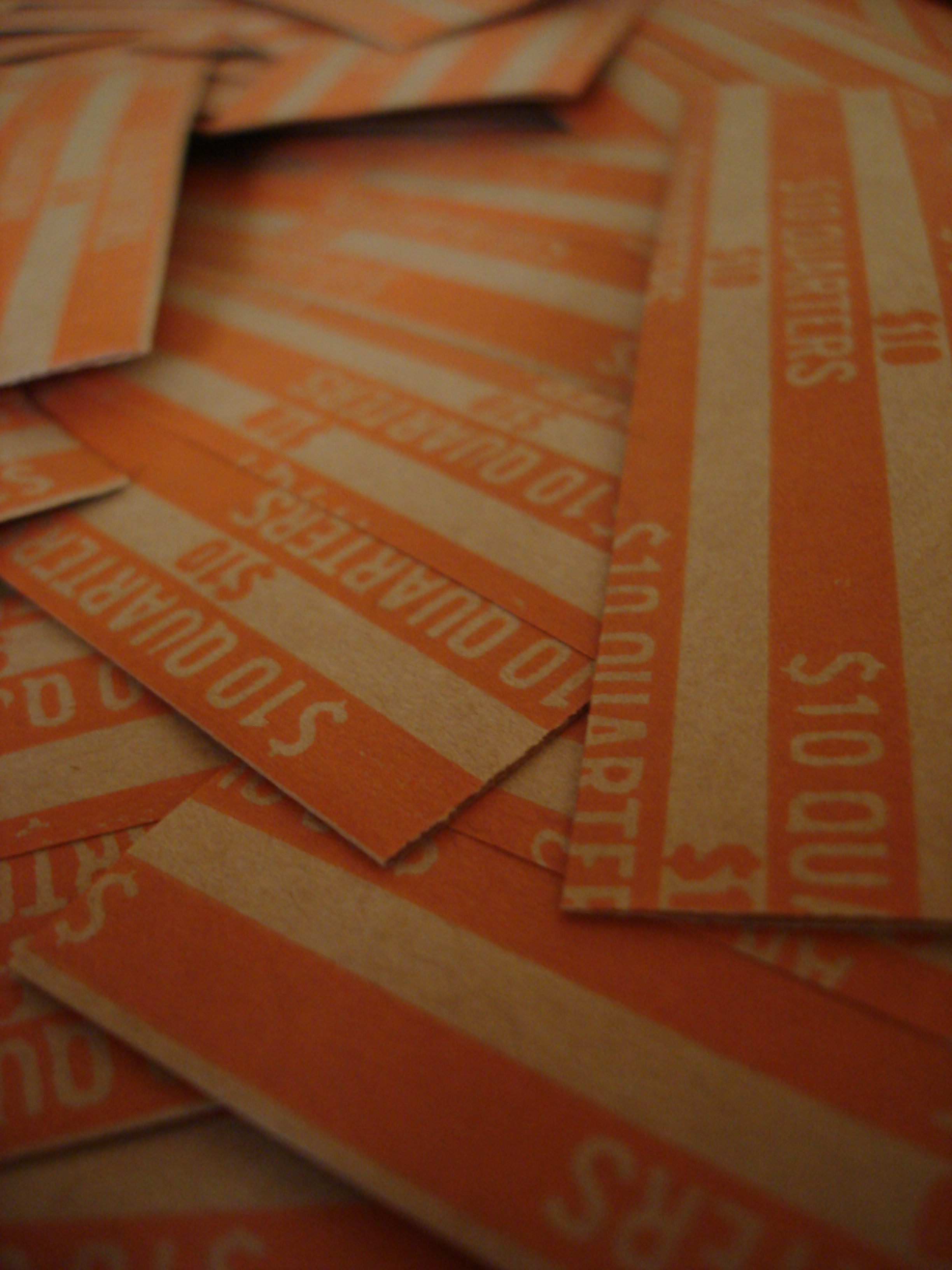 A pile of coin wrappers to be filled with 40 quarters